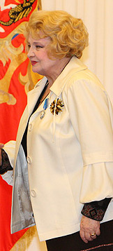 Tatiana Doronina, Russian actress